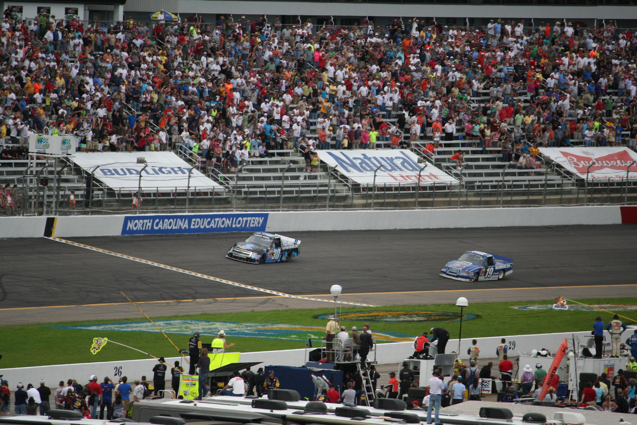 Kyle Larson (No. 30) beats Joey Logano (No. 19) to win the NASCAR Camping World Truck Series North Carolina Education Lottery 200 at Rockingham Speedway, Rockingham, NC, April 14, 2013